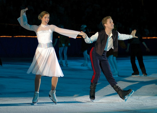 Hilary Gibbons and Justin Pekarek. Photo by Sarah Brannen